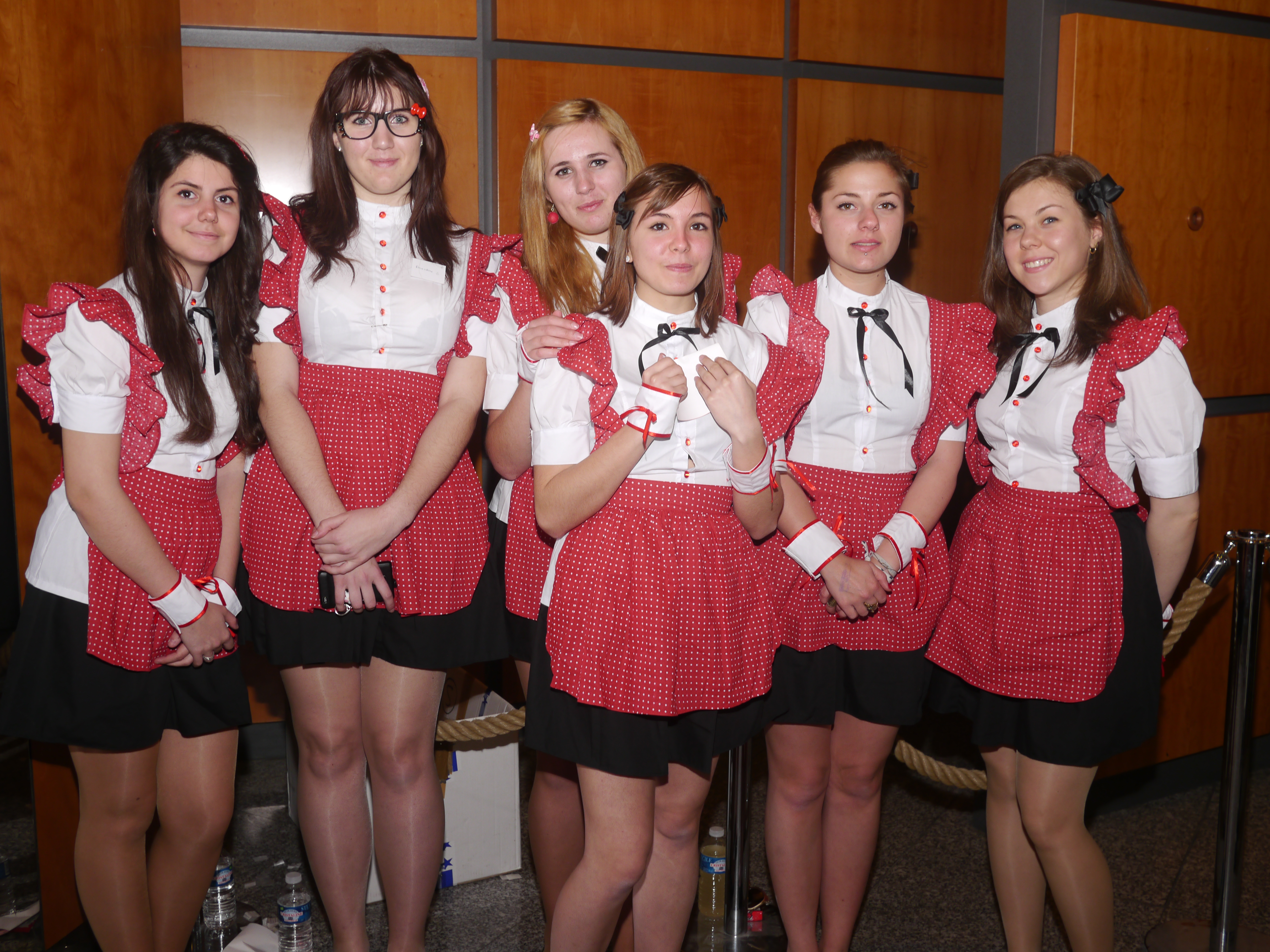 Mang'Azur festival of Toulon - official site